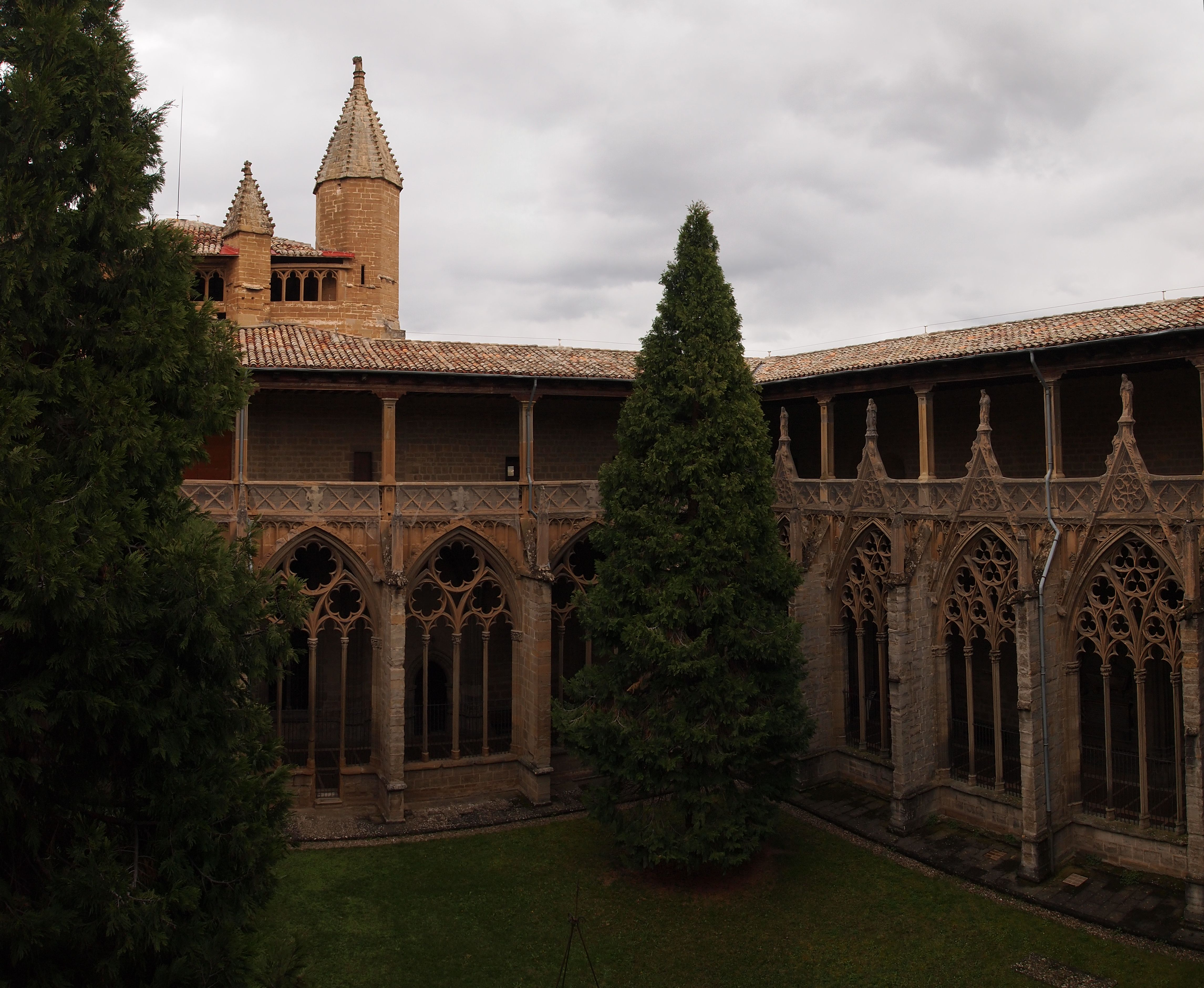 Cloister of the "Catedral de Santa María la Real" in Pamplona